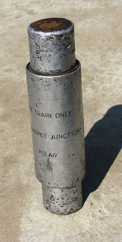 This is a token that's used in a 'One Train only section' of Kolar - Bangarpet, in the South Western Railway system of Indian Railways